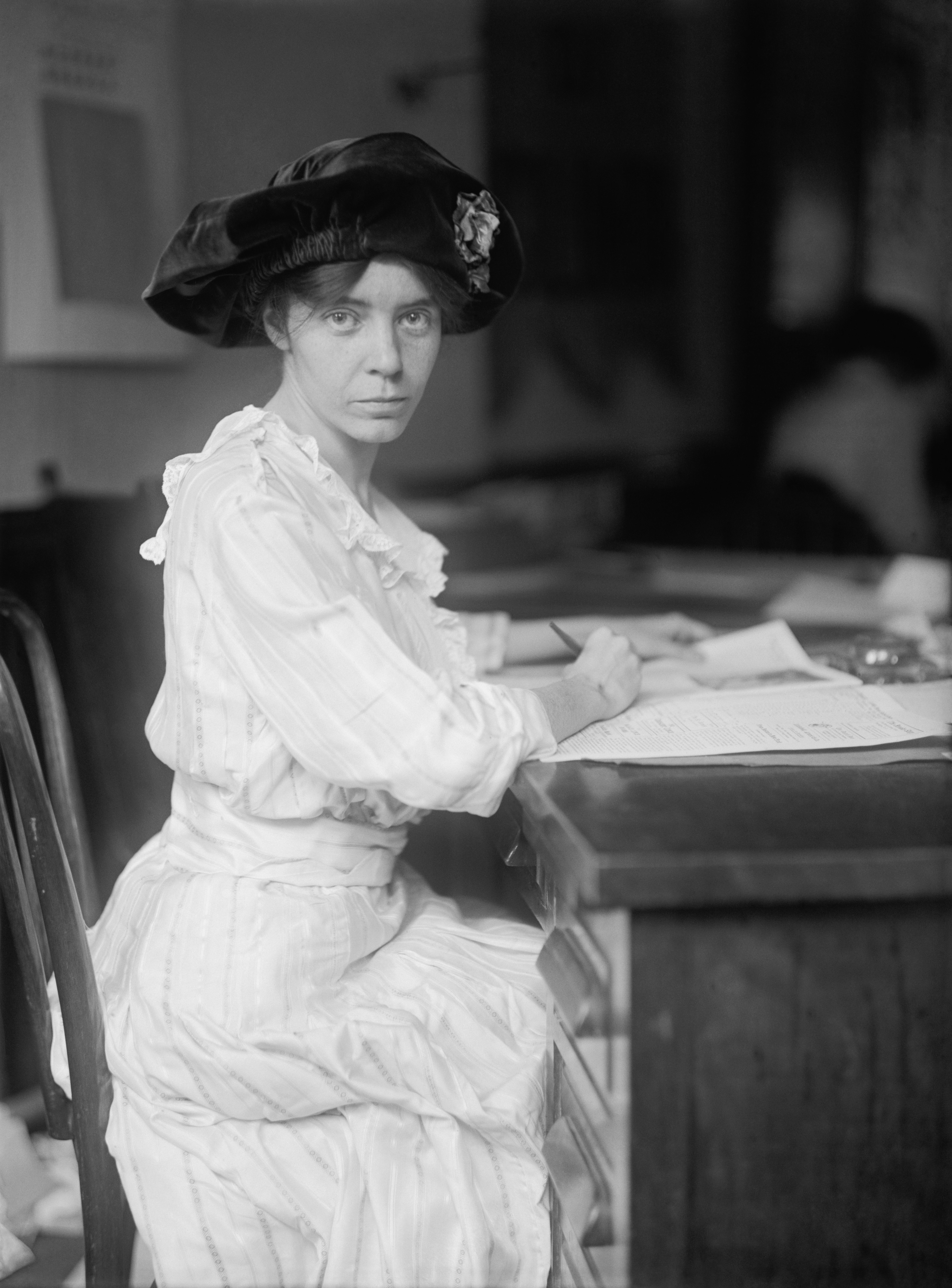 Alice Paul, 1915. Glass negative, "5 x 7 in. or smaller"